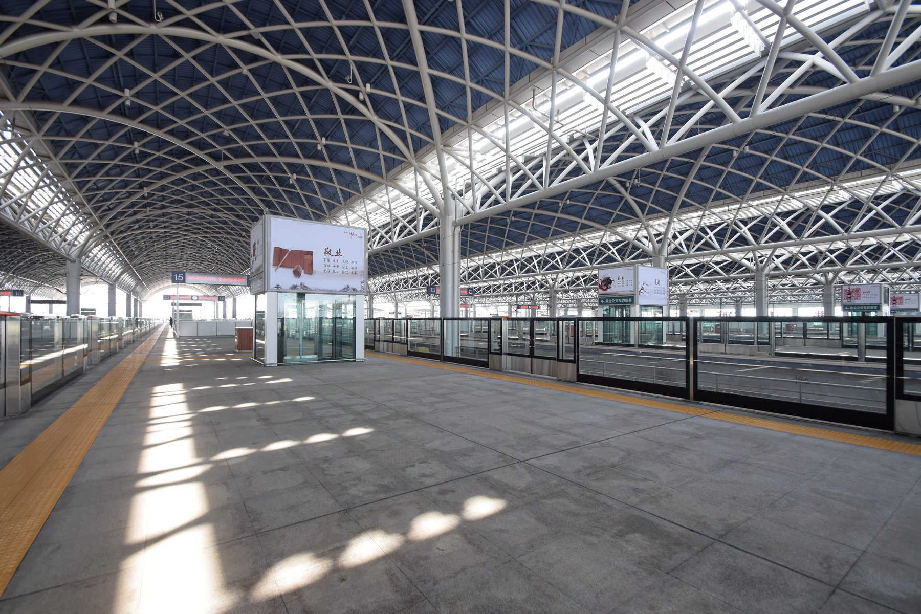 Intercity Railway Platforms of Foshan Xi (West) Railway Station